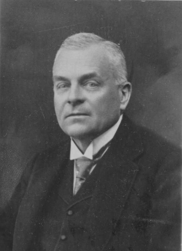 Leberecht Hoffmann (*2. Juli 1863 in Salzuflen; † 20. Oktober 1928 in Bad Salzuflen) war ein lippischer Unternehmer.